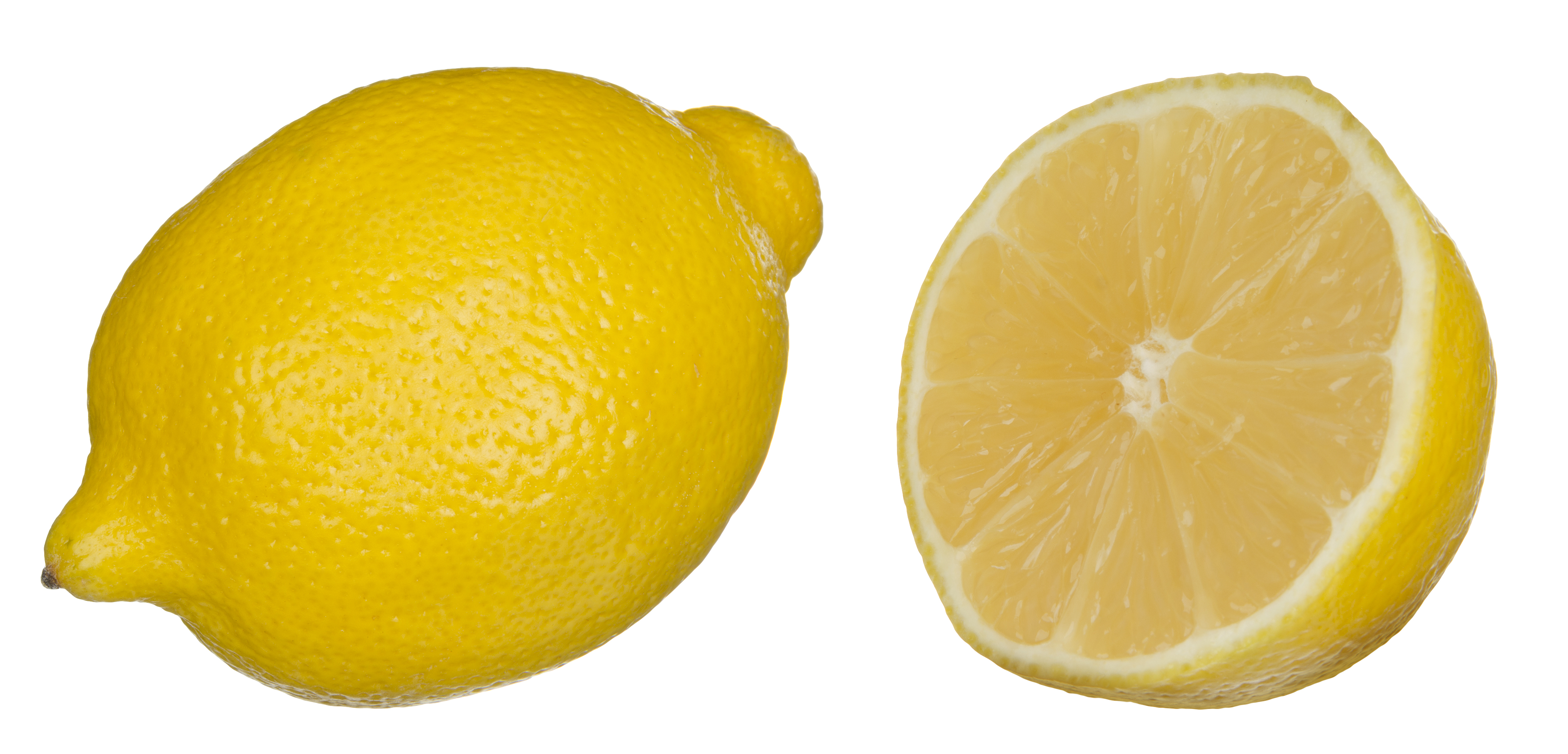 A store-bought lemon, shown whole and split in half.